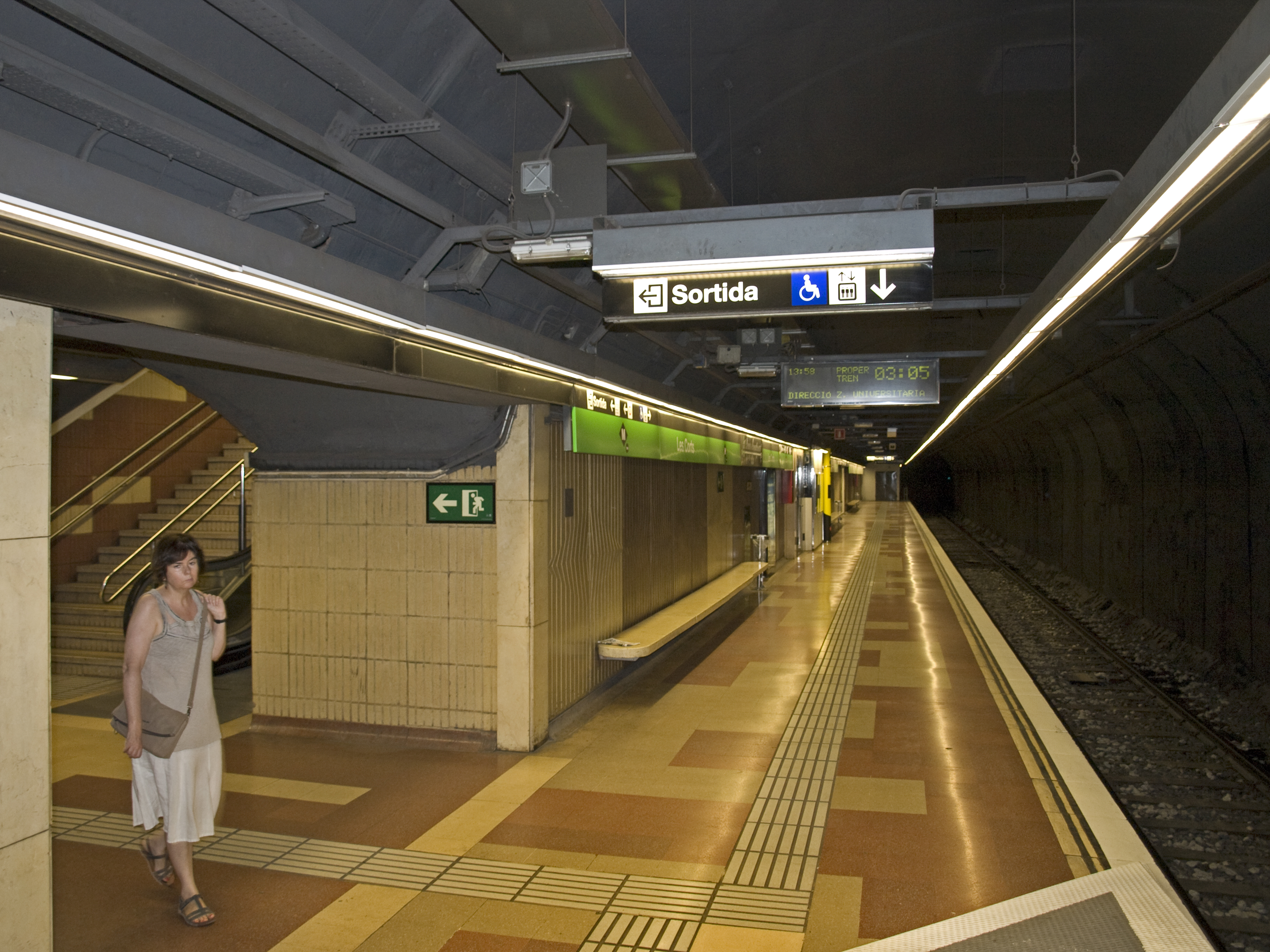 Les Corts station, line L3, northbound platform, Barcelona Metro